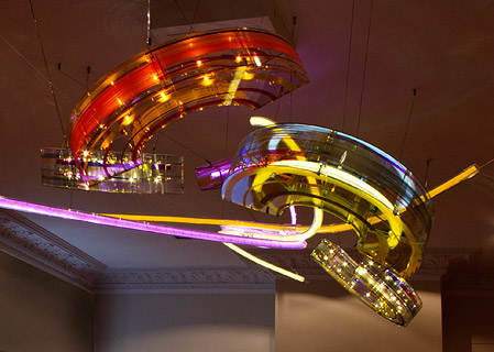 Installation „Talk, Talk“, Berlin, 2014